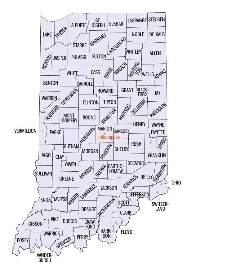 Map of from the Census Bureau